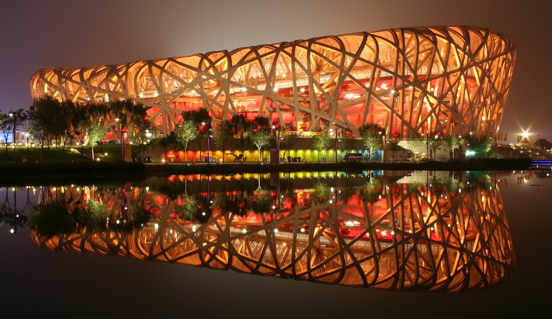 Beijing National Stadium. Architect: Herzog & de Meuron, ArupSport, China Architectural Design & Research Group.